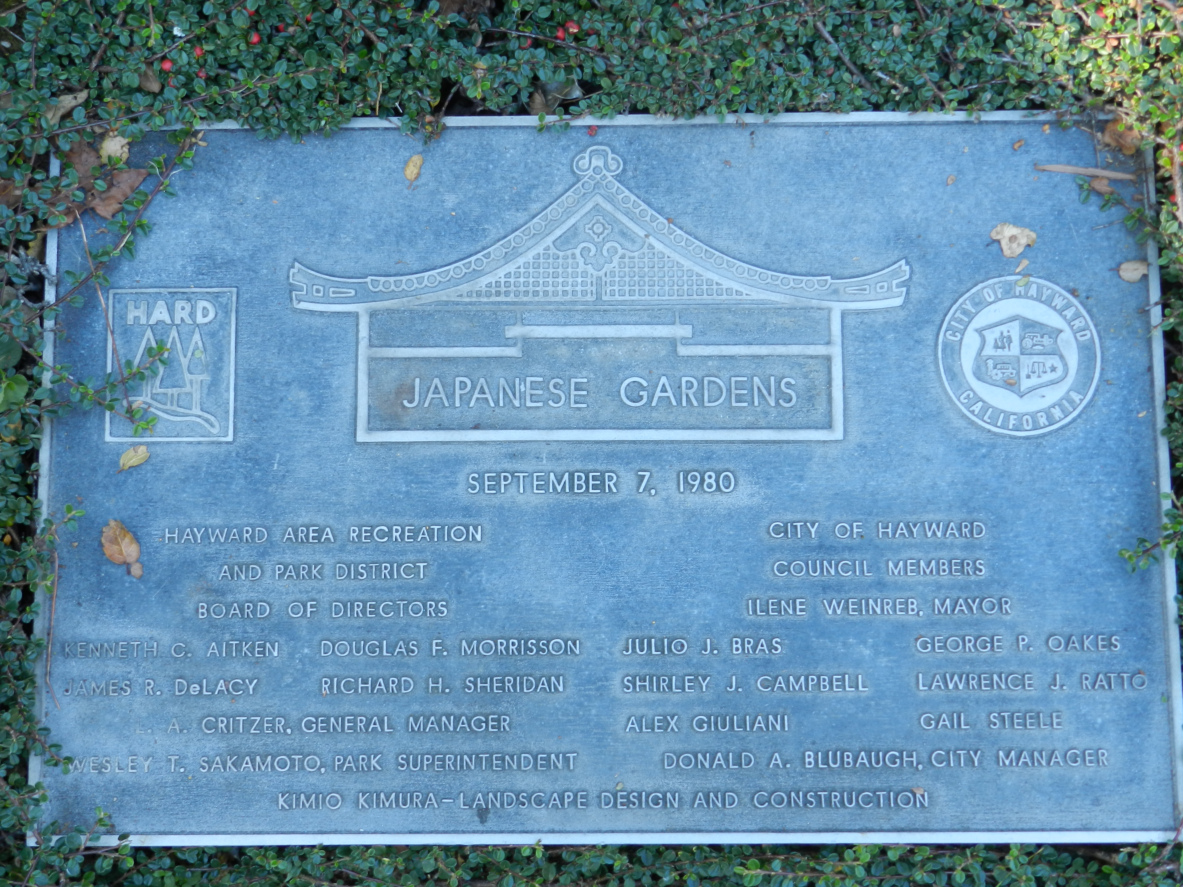 Memorial plaque, Japanese Gardens, Hayward, California